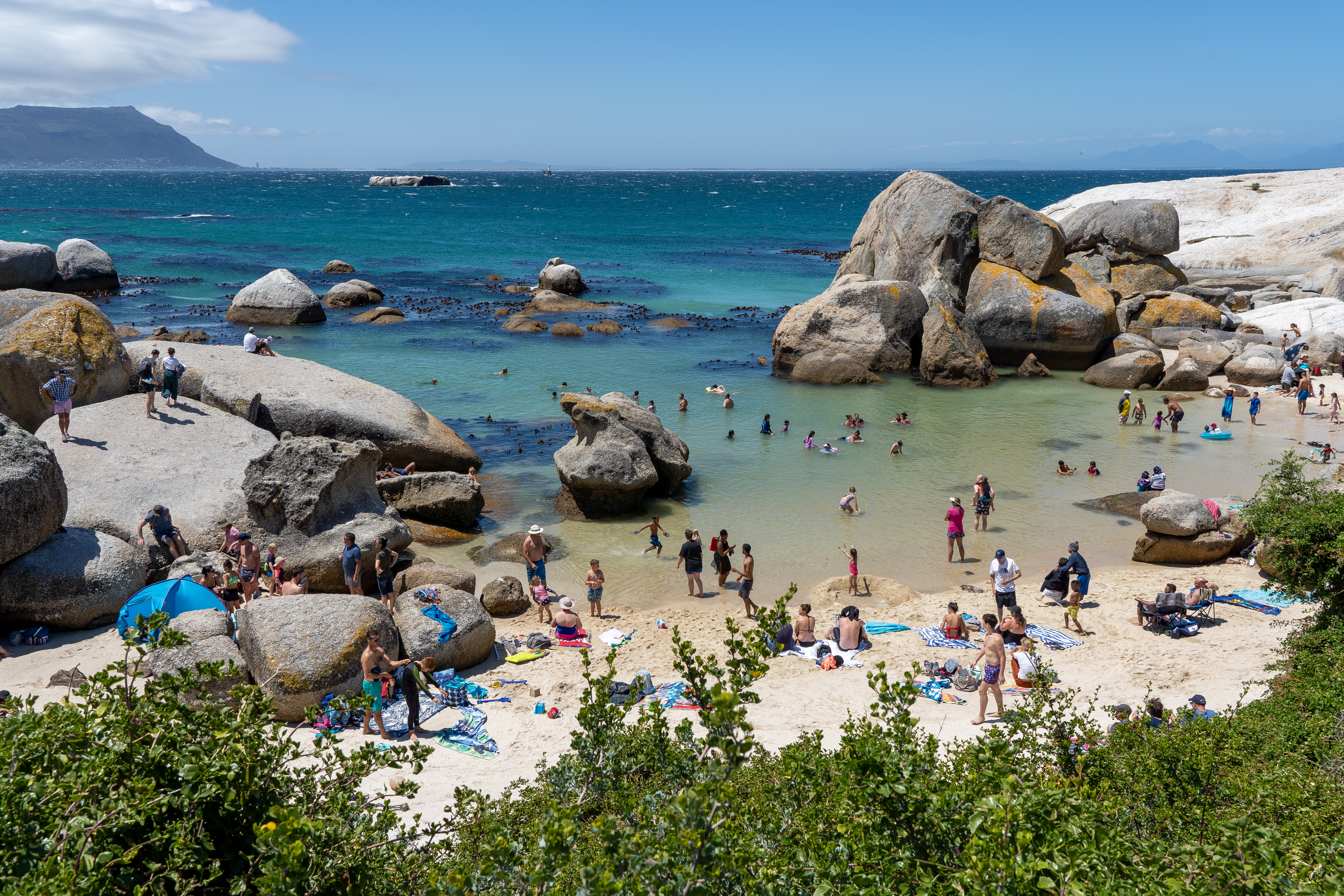 Boulders Beach in Simons Town, South Africa